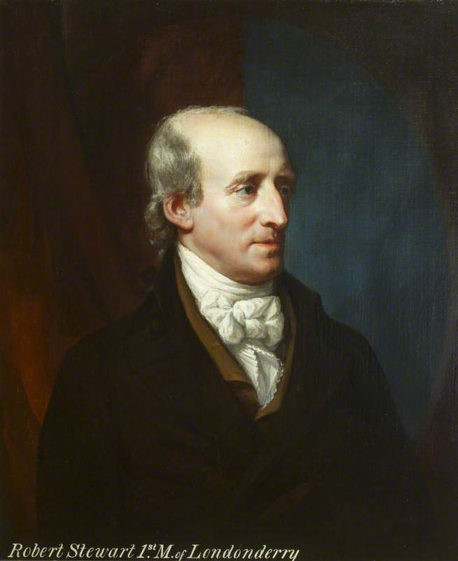 Portrait of Robert Stewart, 1st Marquess of Londonderry, by Hugh Douglas Hamilton.